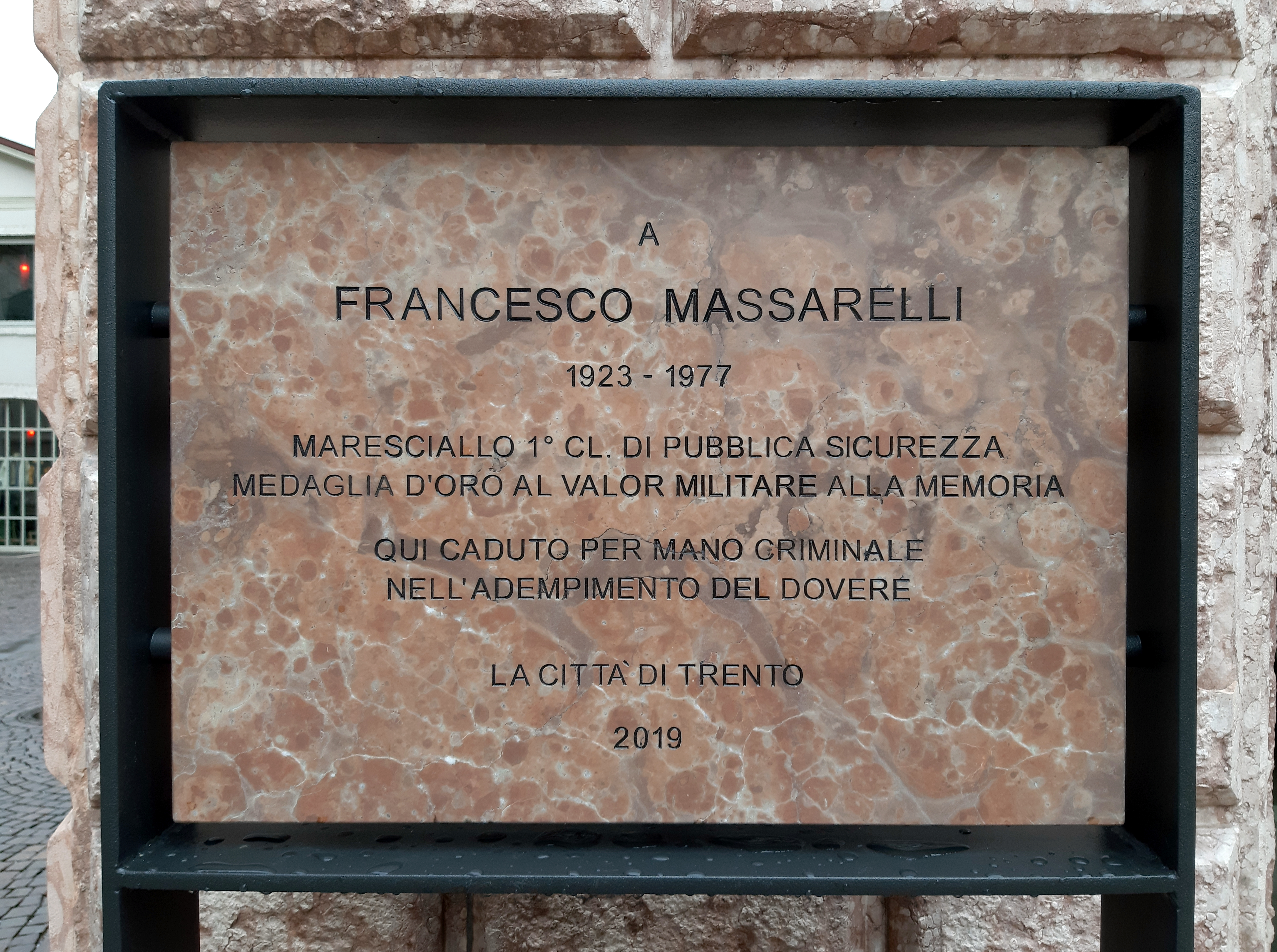 Plaque to Francesco Massarelli in Via San Pietro in Trento.